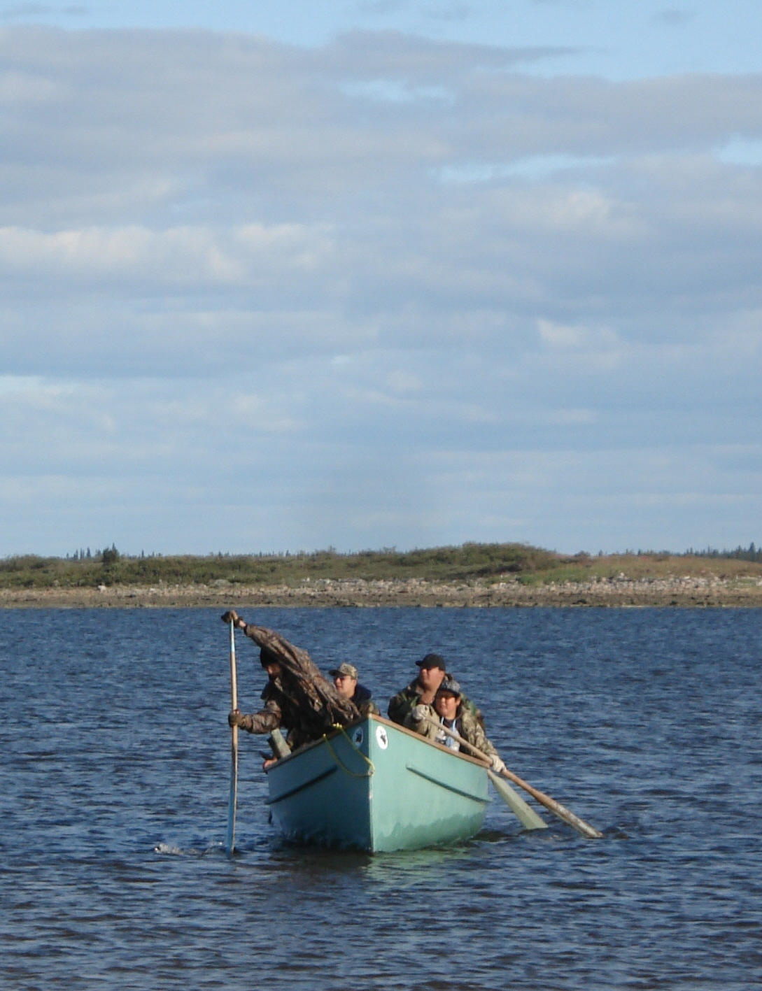 Chisasibi Crees, at James Bay, Quebec